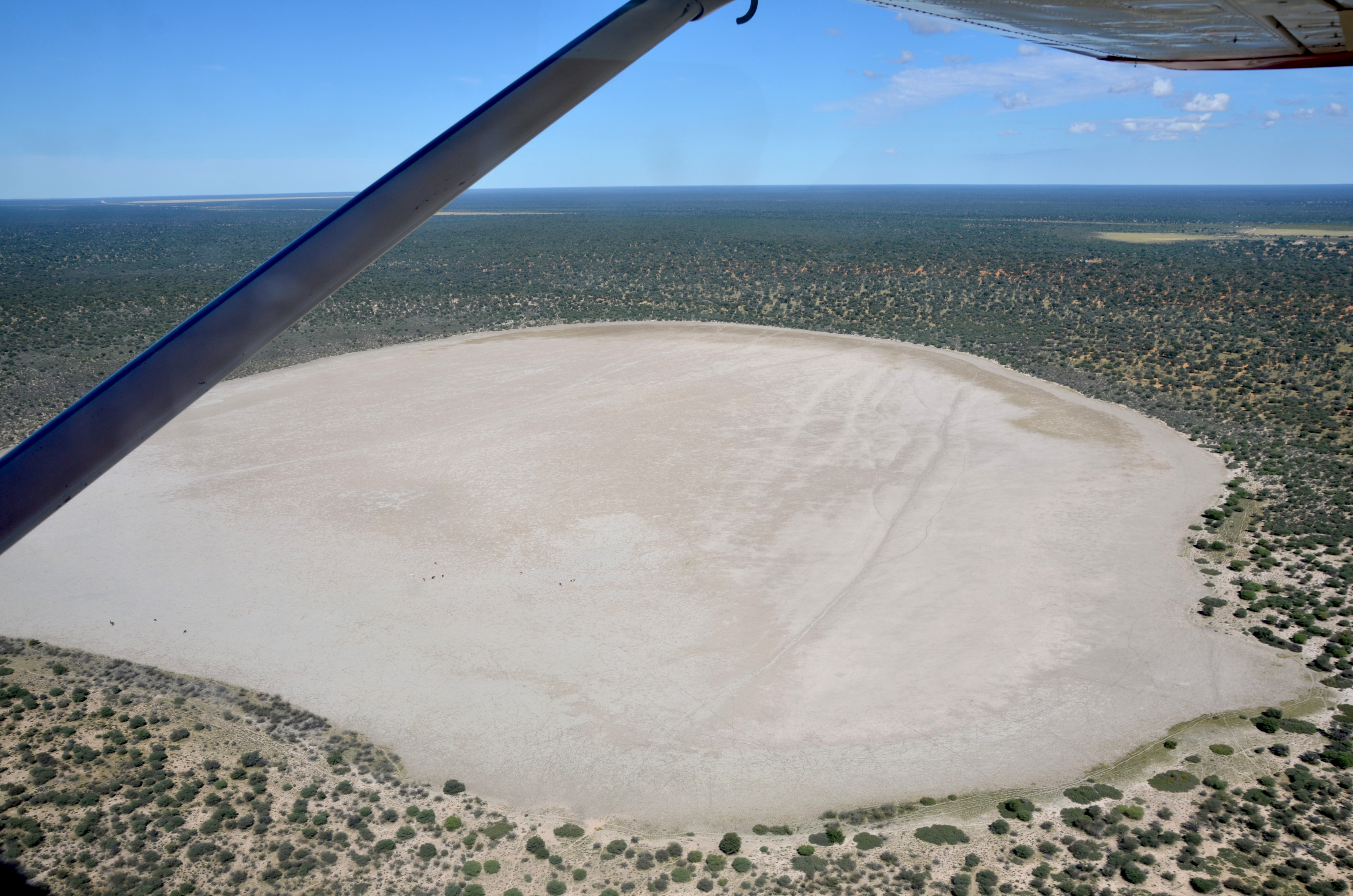 Kalahari Clay Pan near Onderombapa (2017)